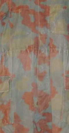 Telo mimetico patterno, San Marco variation